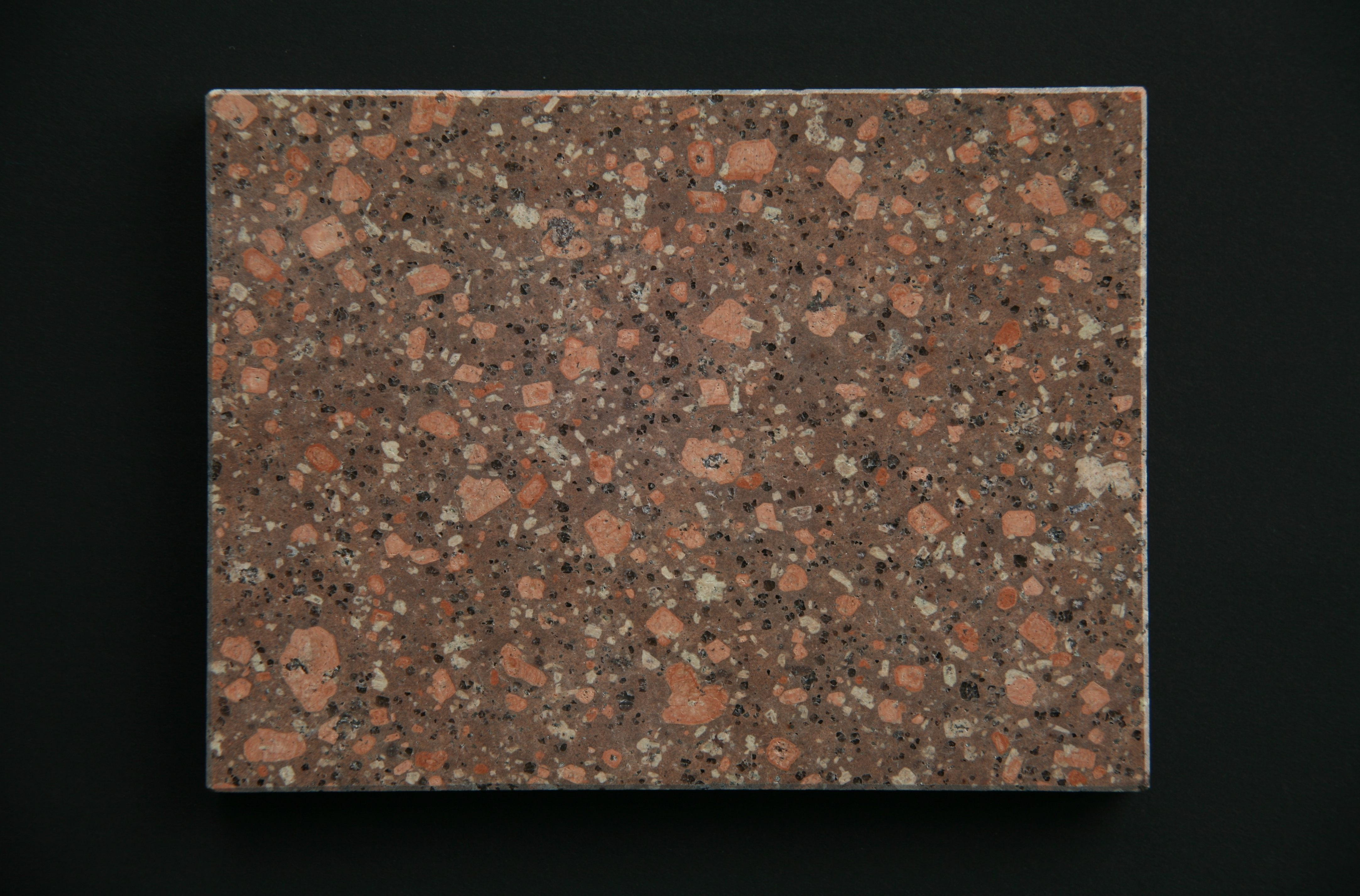 Polished section of sample of permocarboniferous (“Rotliegend”, Gzhelian-Asselian) rhyolite, so-called Löbejüner Porphyr (“Löbejün Porphyry”), Halle Volcanic Complex, Saxony-Anhalt, eastern Central Germany.